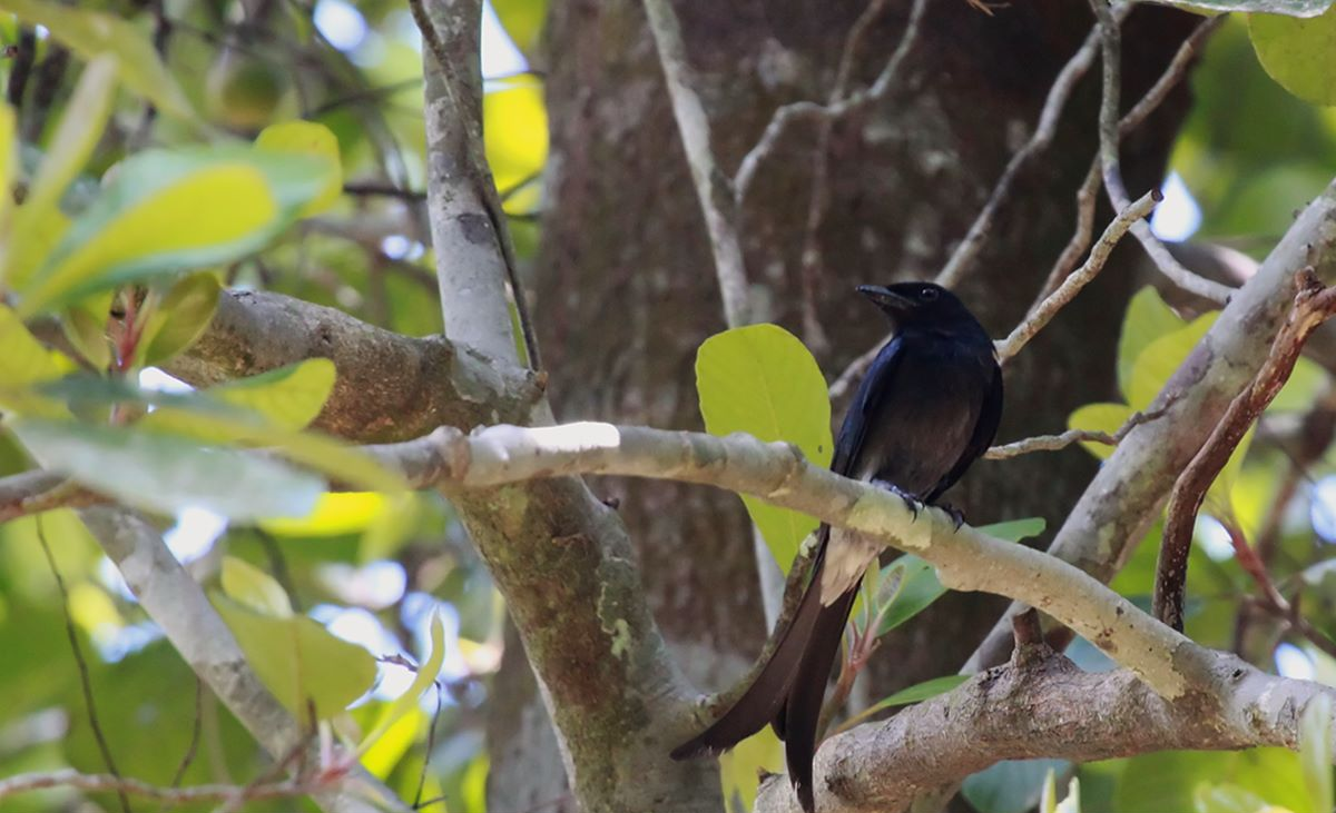 A White-bellied Drongo in Bodhinagala Forest Reserve, Sri Lanka.